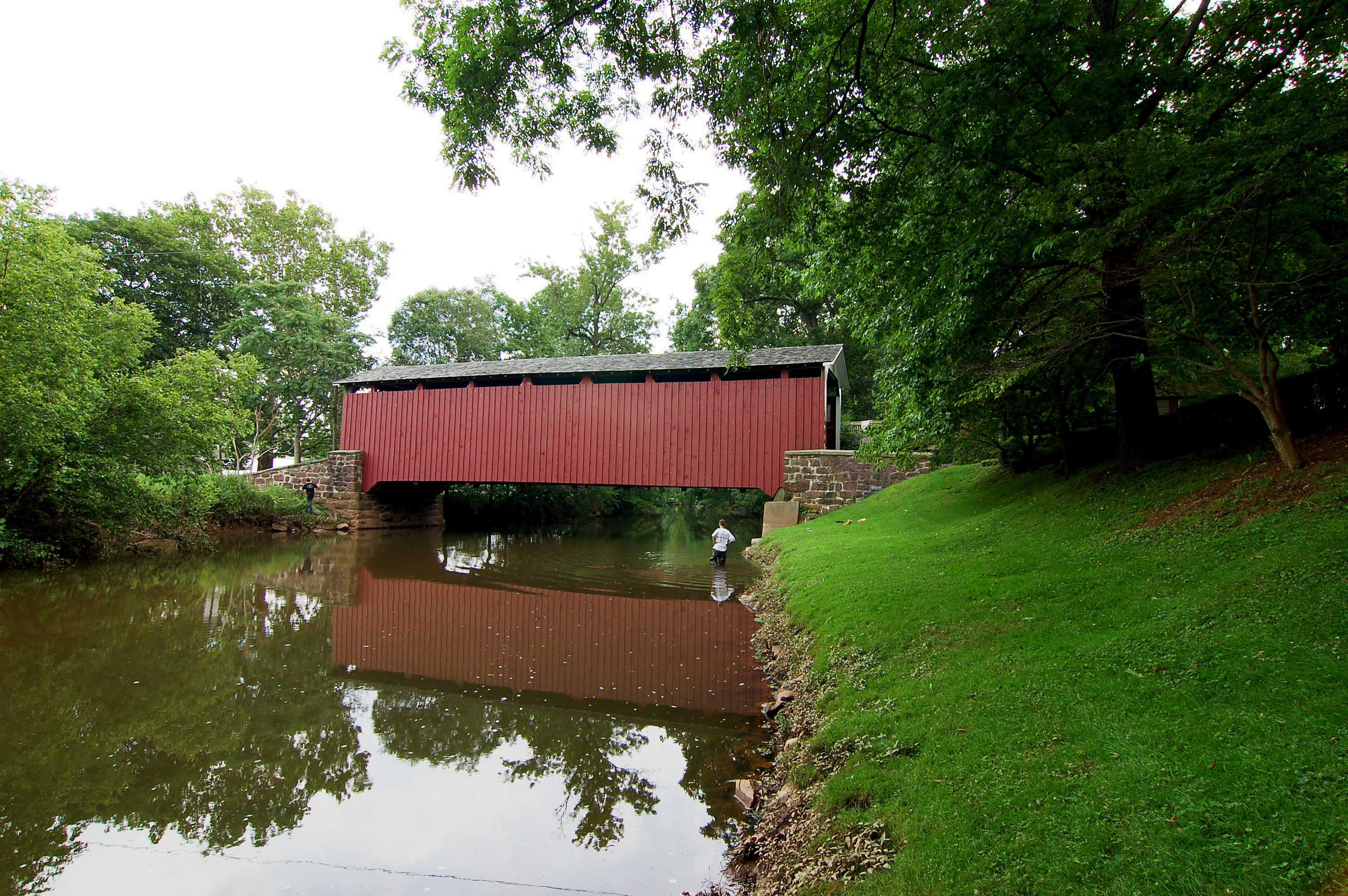 A wide angle photograph of the Bucher's Mill Covered Bridge. The bridge is located in Lancaster County, Pennsylvania.